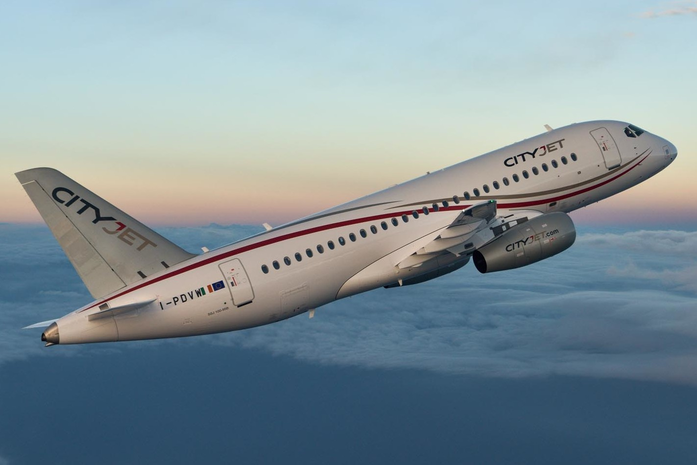 Sukhoi We asked the best aviation photographer Katsuhiko Tokunaga to take some amazing pictures about our beautiful airplane during the sunset around the Venice area (Italy).